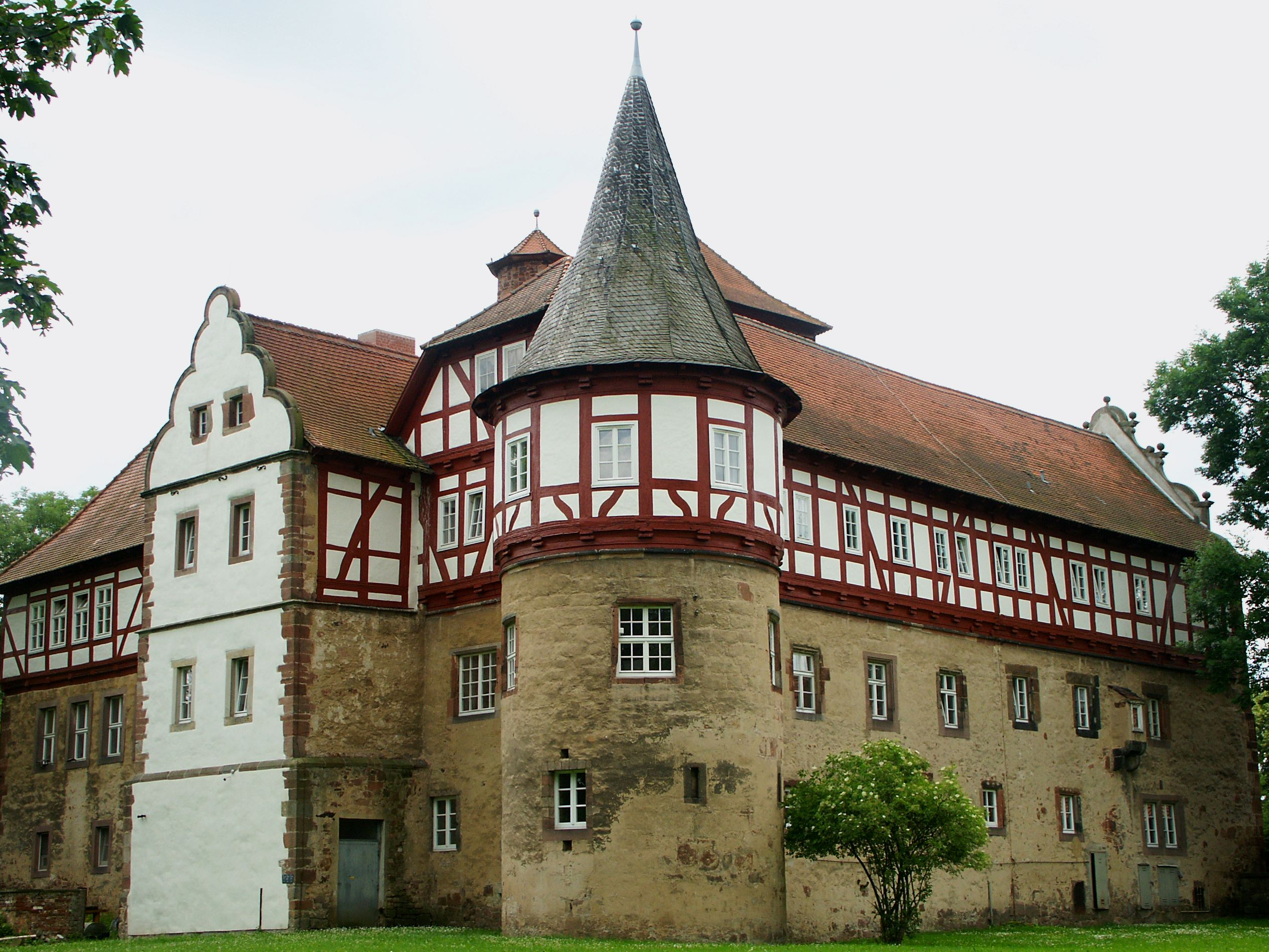 retral view of castle Eichhof in Bad Hersfeld